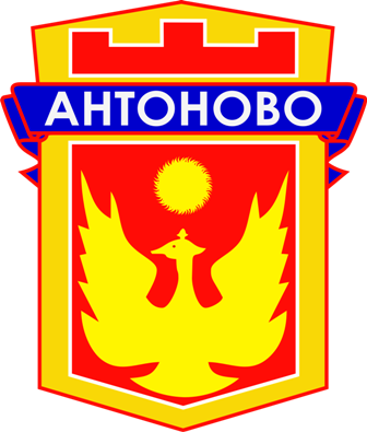 Emblem of town of Antonovo, Bulgaria